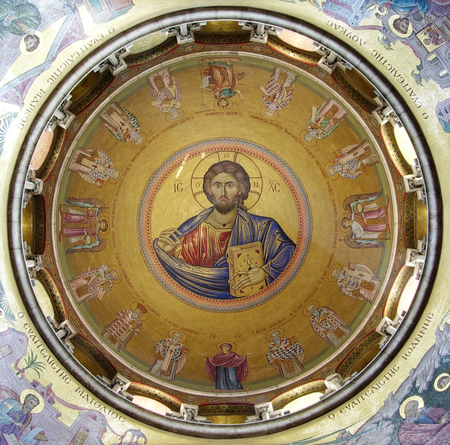 Holy Sepulchre, detail of the dome over the Katholikon, Jerusalem